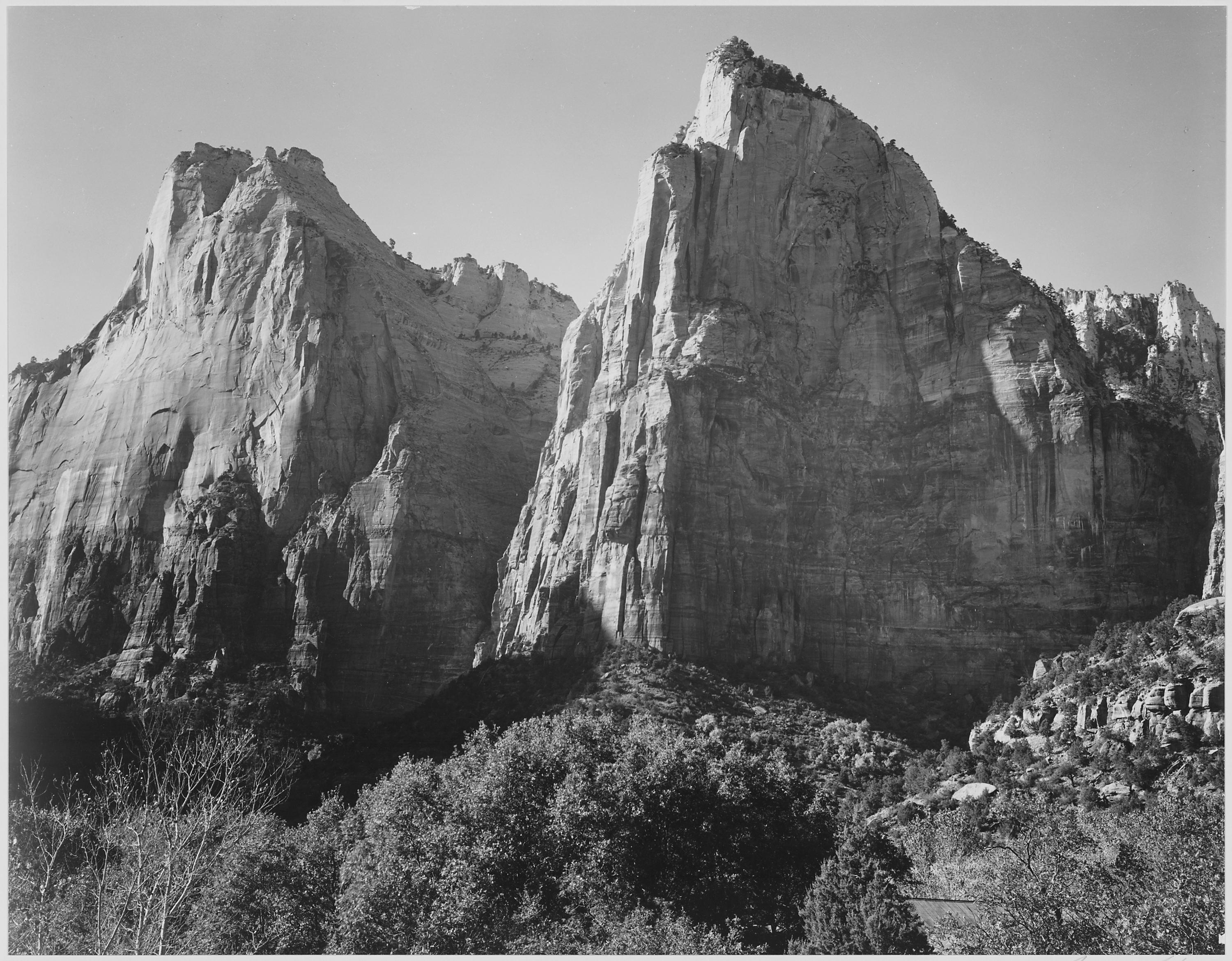 "Court of the Patriarchs, Zion National Park," Utah; From the series Ansel Adams Photographs of National Parks and Monuments, compiled 1941 - 1942, documenting the period ca. 1933 - 1942.